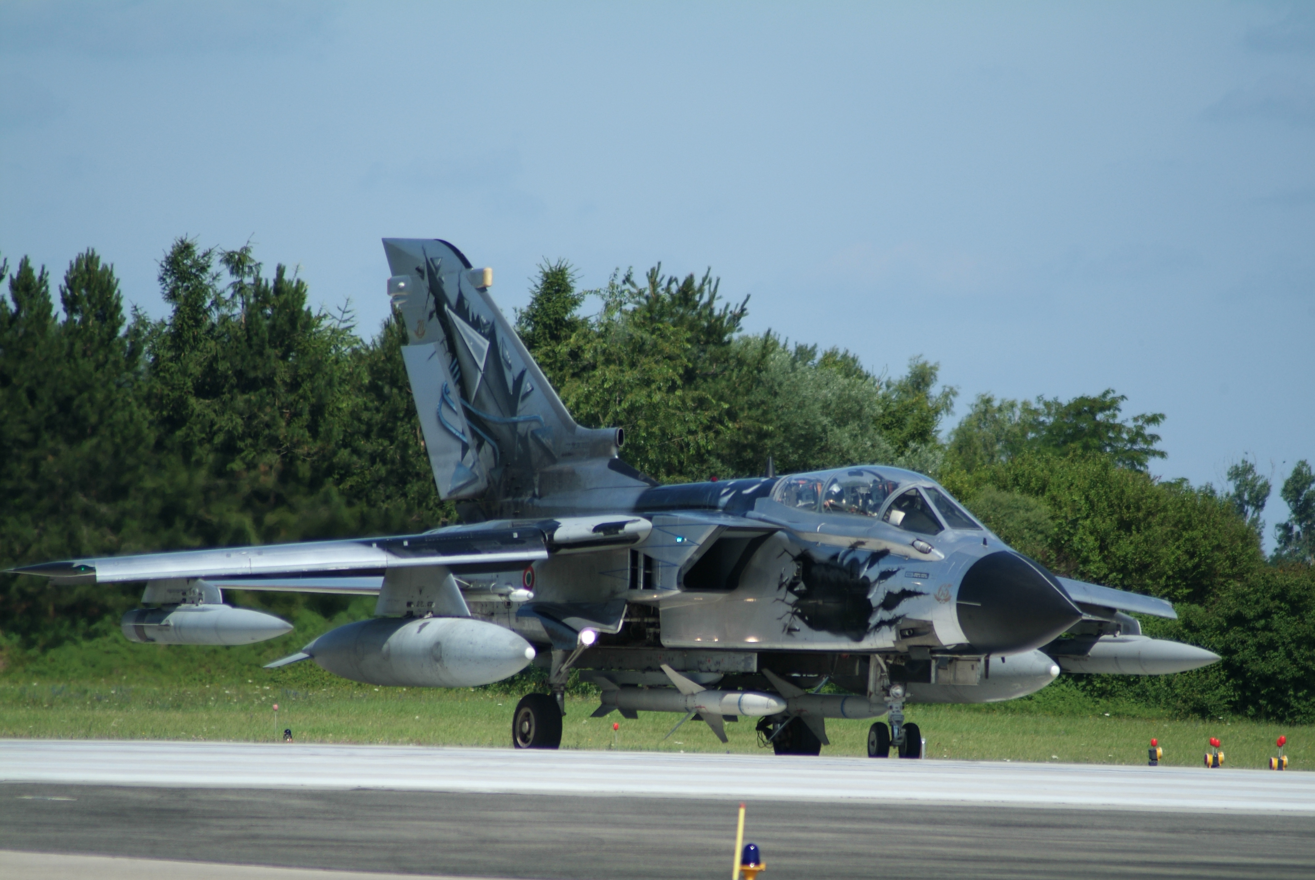 Specially marked Italian Tornado MM7027 50 Stormo 155 Gr.